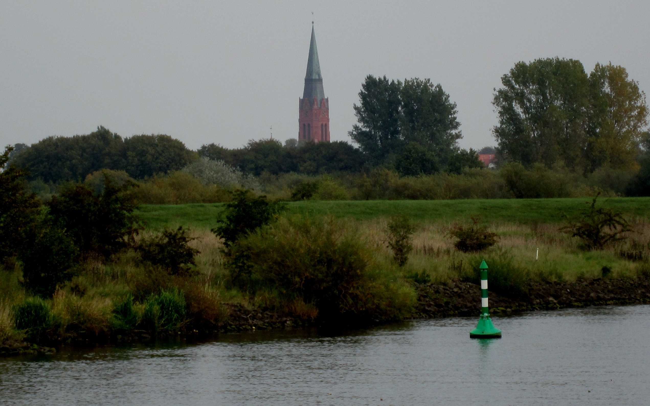 River Weser near Nienburg. In the background St. Martin's Church